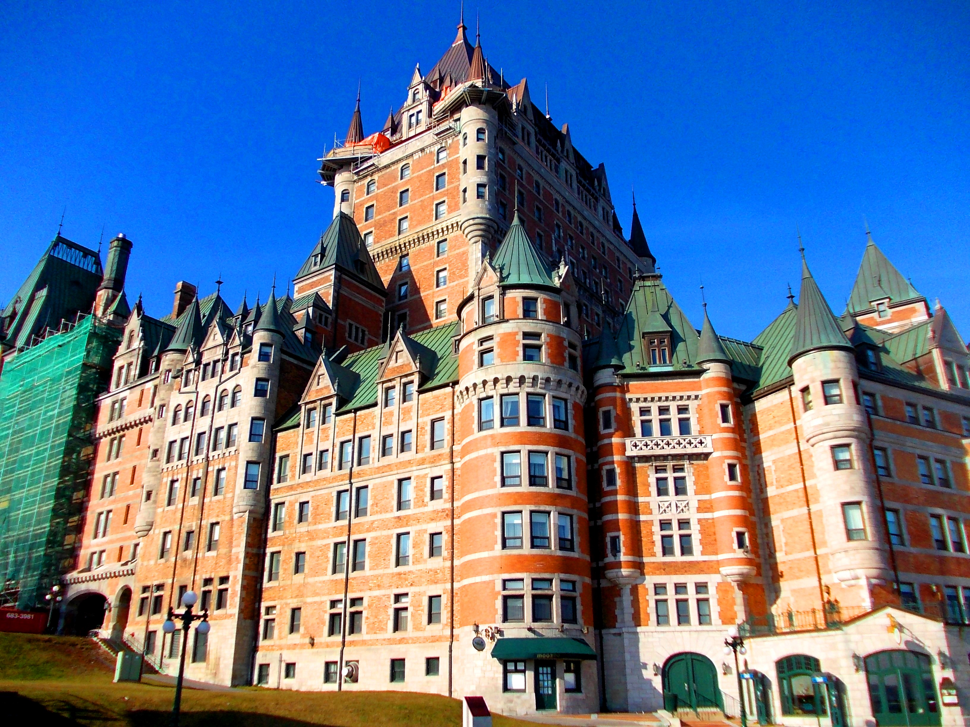 Château Frontenac